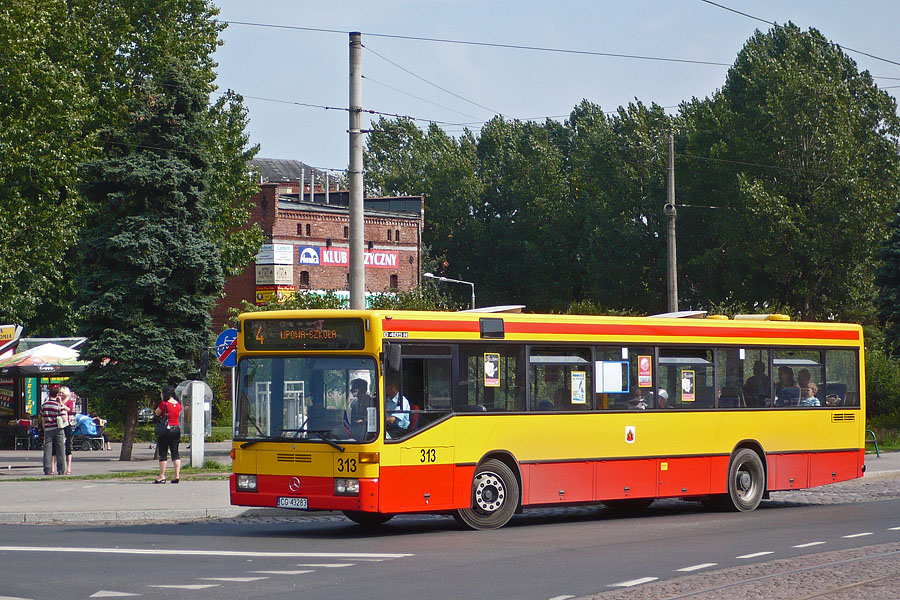 Mercedes-Benz O405N bus (#313) in Al. 23 Stycznia, Grudziądz, Poland. Built 1994, MZK Grudziądz operator.